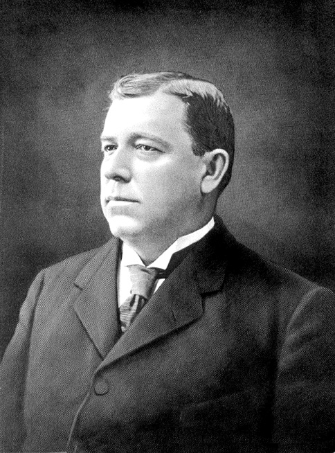 Photograph Carlton Godfrey